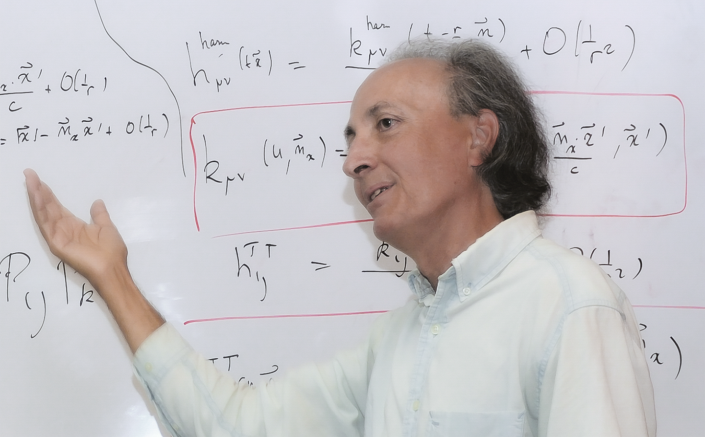 Portrait of Thibault Damour (for Wikipedia article)